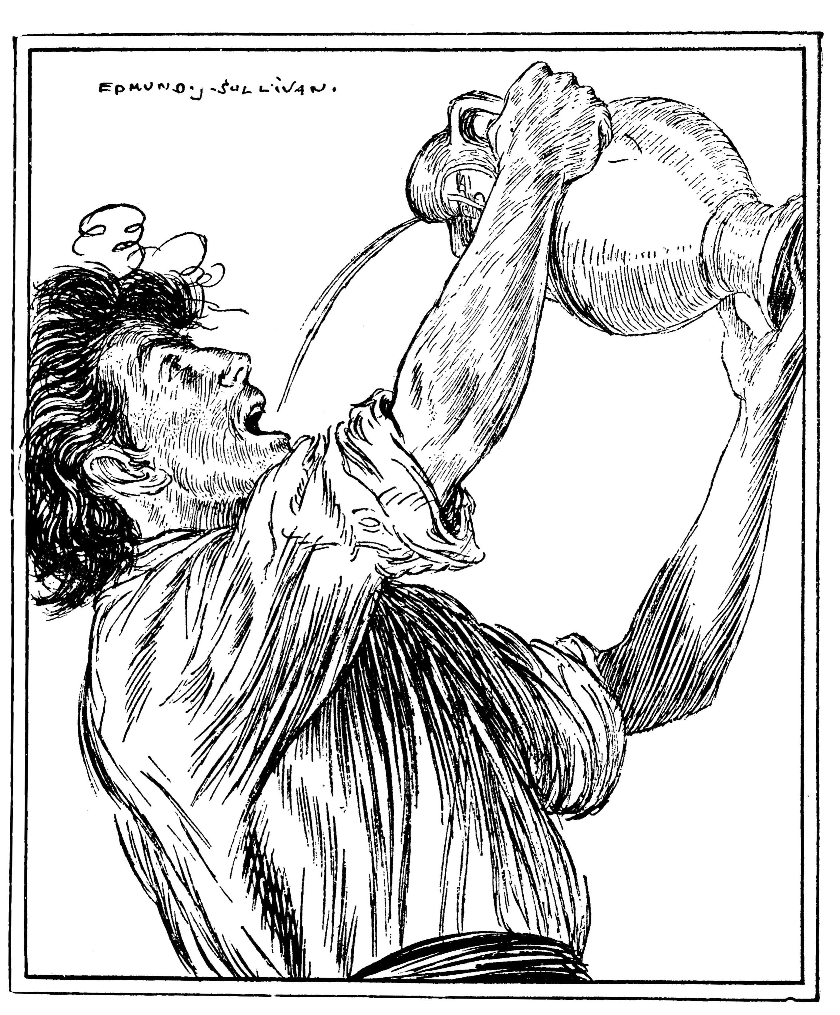 This is a quatrain illustration by Edmund J. Sullivan to the Rubaiyat of Omar Khayyam, First Version (translated by Edward Fitzgerald).